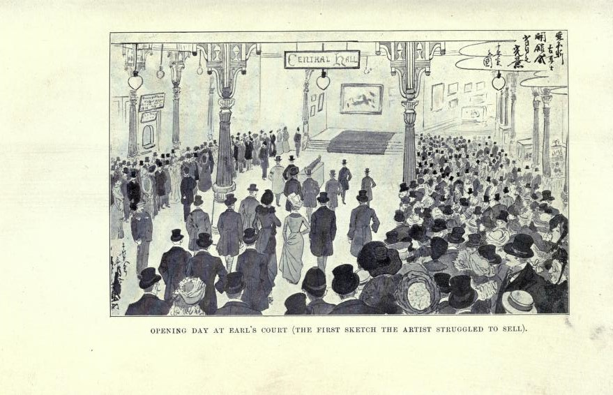 Print for Japanese artist in London by Yoshio Markino, his first sold work in England in 1901